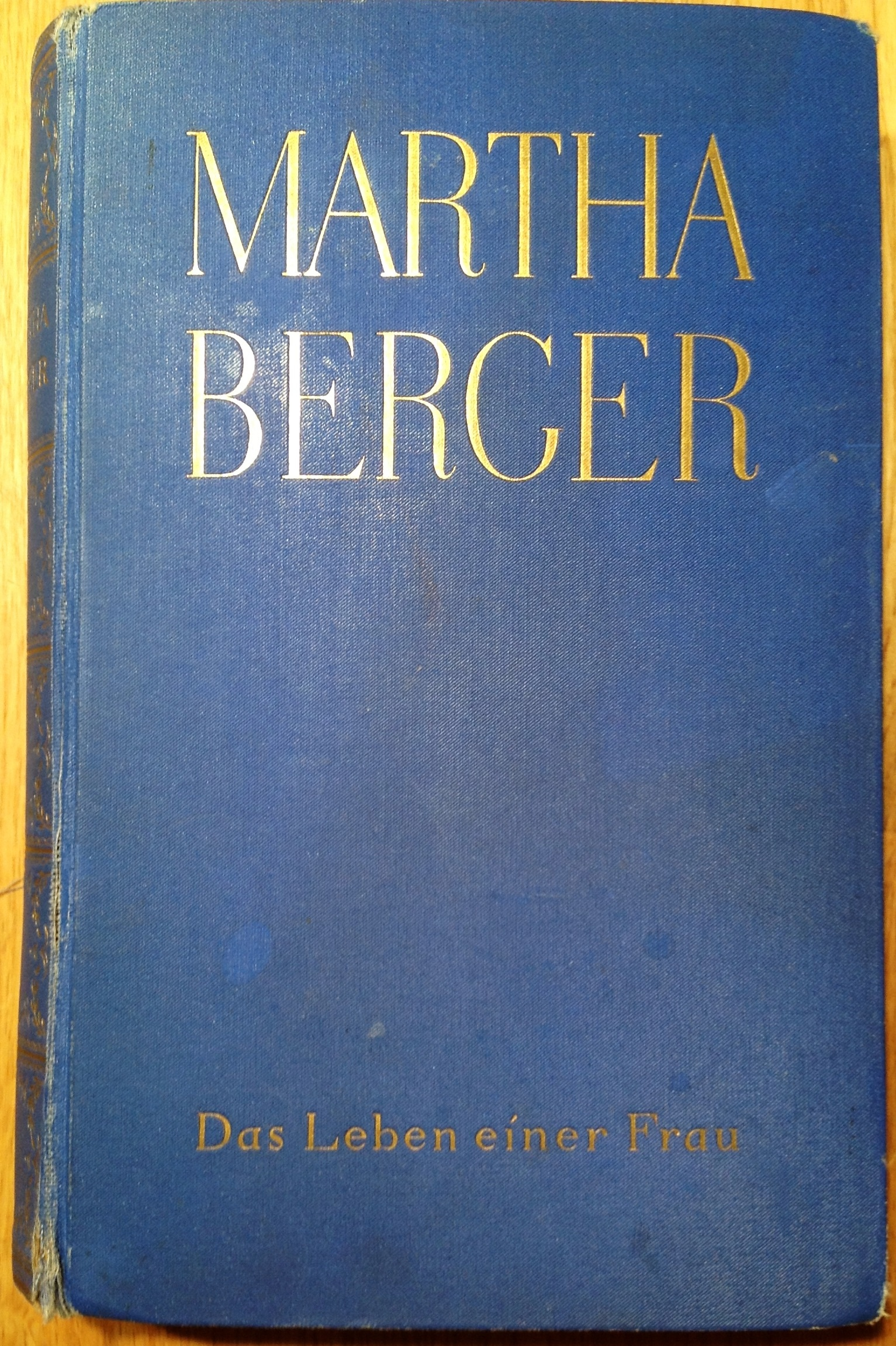 Book Cover of "Martha Berger - Das Leben einer Frau. Wien, Leipzig, München: Rikola 1925."